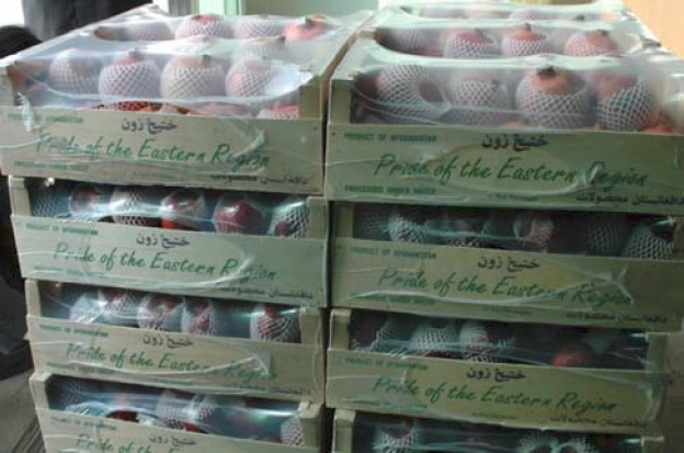 Pomegranates from eastern Afghanistan packaged for export to Dubai